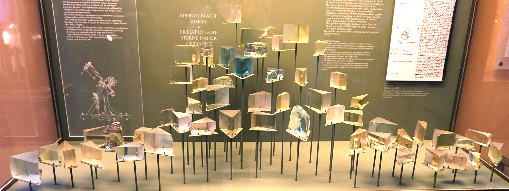 Fraunhofer prisms in Deutsches Museum, Munich. This photograph was taken with a Sony Alpha a5000.